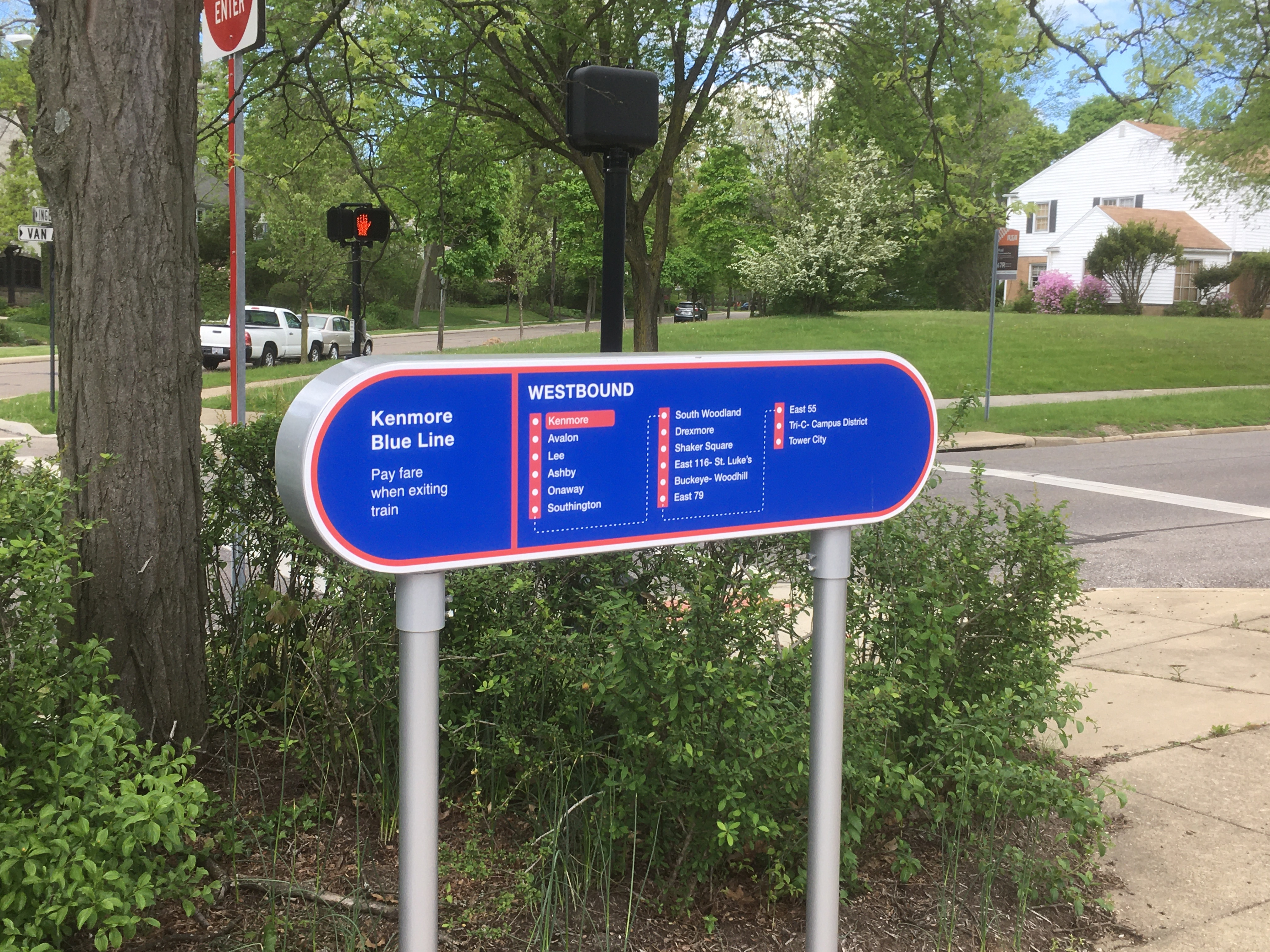 Kenmore, 2020 sign